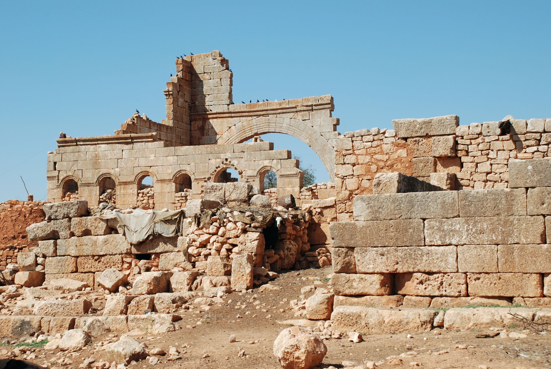 Ruweiha, dead city in Syria. Second basilica from south